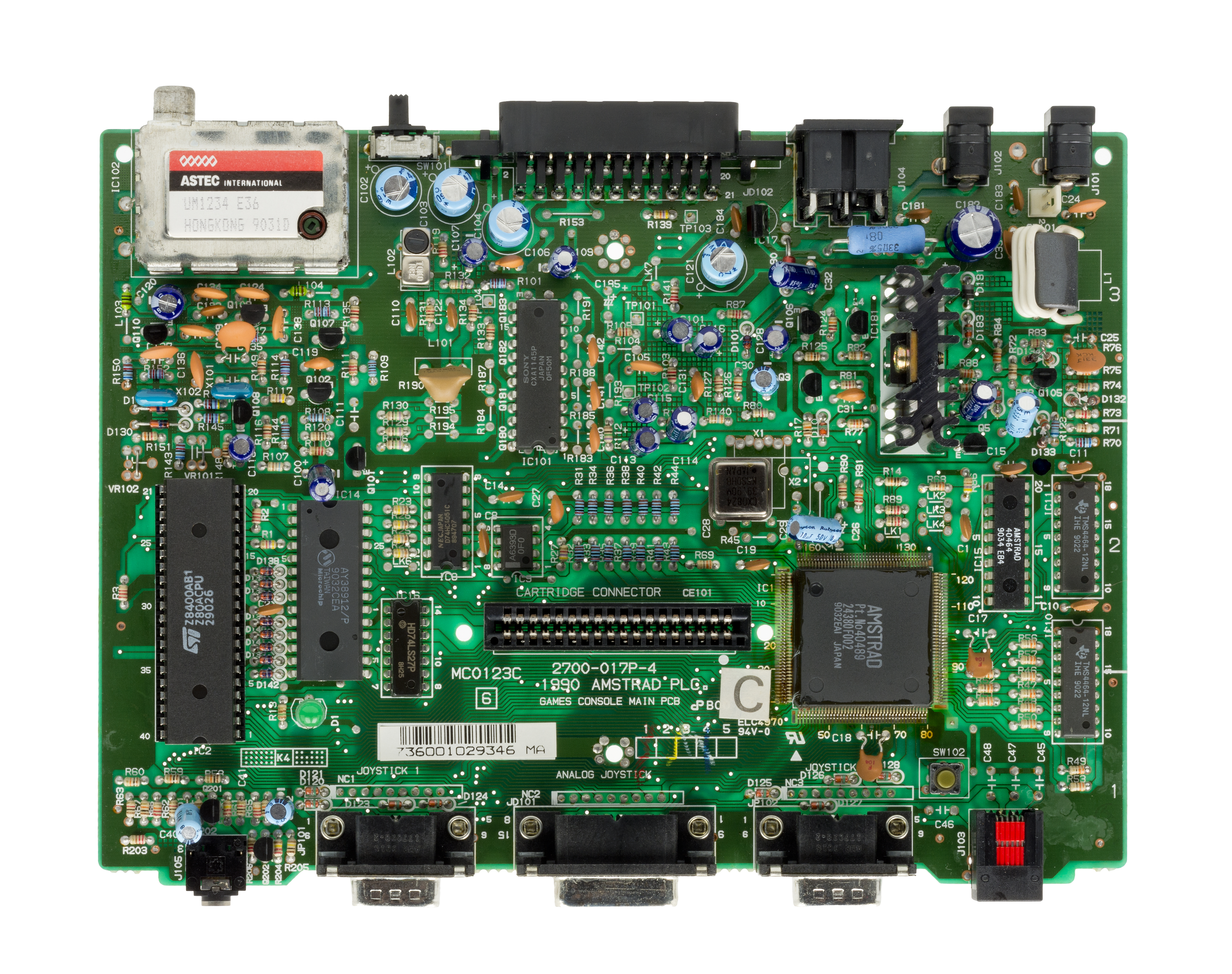 The motherboard of the Amstrad GX4000, a Zilog Z80-powered video game console released by Amstrad in 1990. This Europe-exclusive console was a repackaging of Amstrad's line of CPC Plus computers, offering direct conversions of CPC Plus titles. It was only on the market for a short while before being discontinued.